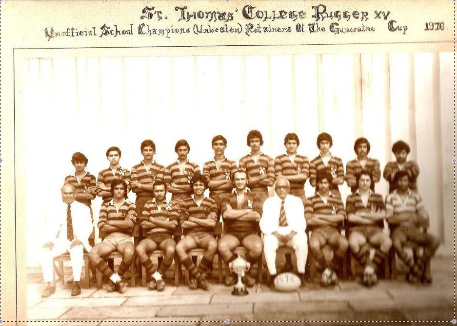 S Thomas'College 1st XV Rugby Union team captained by Stefan D'Silva and along with the 1975 team described as one of the best ever schoolboy teams in Sri Lanka in the 1970's